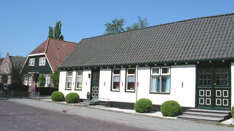 Het dorp Nibbixwoud. The Village of Nibbixwoud